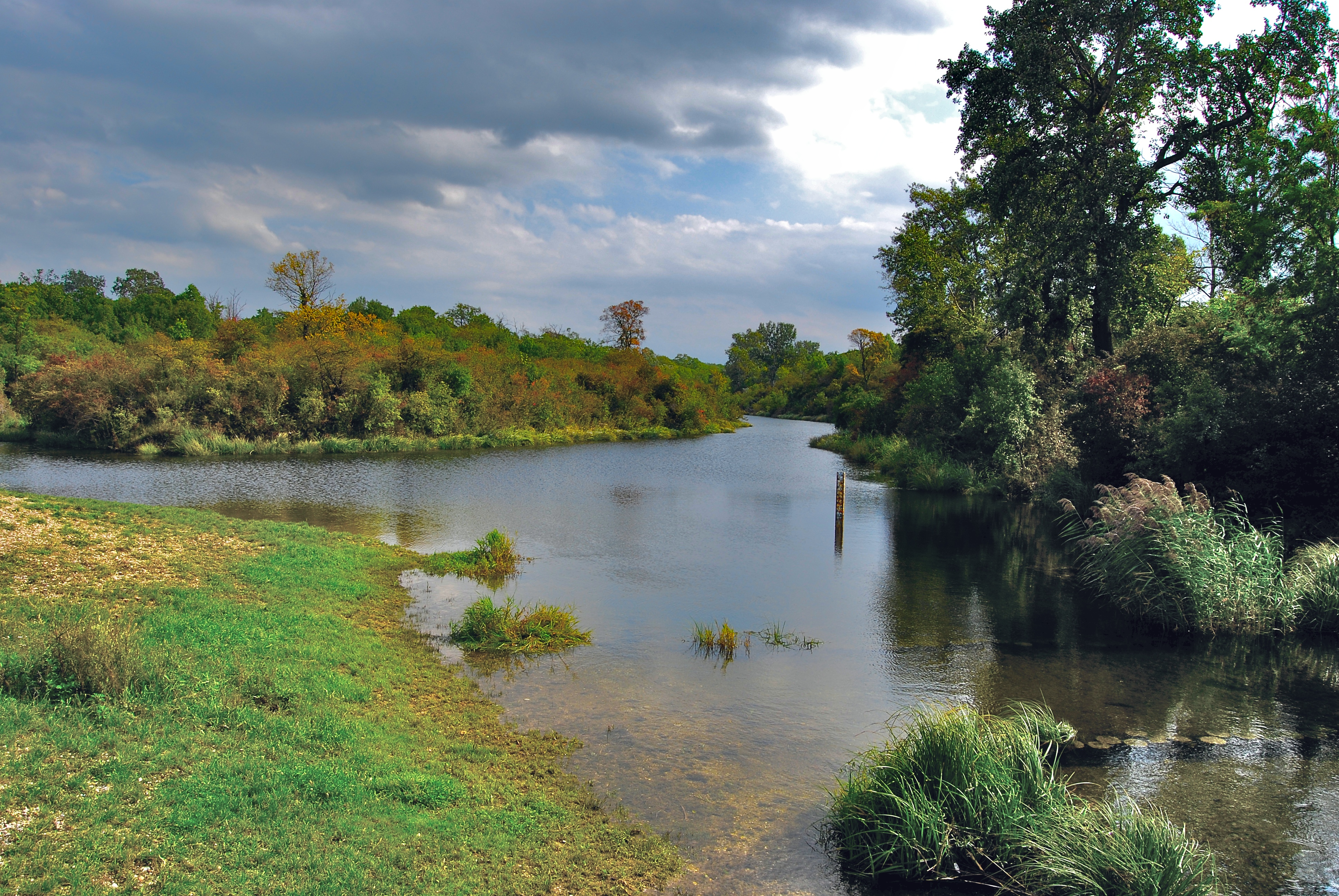 Same as Lobau_3.JPG, the thumbnail is broken, why?